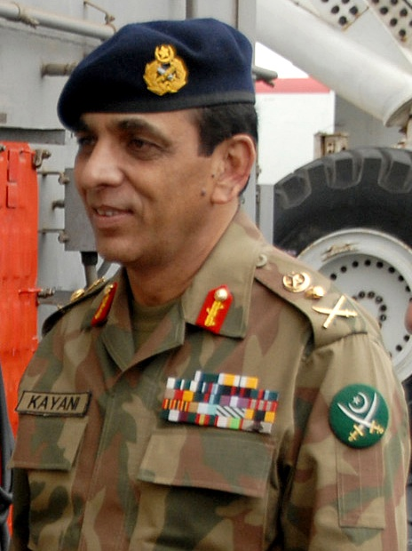 Cropped picture of Pakistani General Ahsfaq Kayani; original version from U.S. Department of Defense [1]: "From Left: U.S. Navy Adm. Mike Mullen, chairman of the Joint Chiefs of Staff, and U.S. Navy Rear Adm. Scott Van Buskirk, commander of Carrier Strike Group 9, talk with Pakistani Army Gen. Ashfaq Kayani, chief of army staff, and Pakistani Army Major Gen. Ahmad Shuja Pasha, director general of military operations, on the flight deck aboard USS Abraham Lincoln in the North Arabian Sea. U.S. Navy photo by Petty Officer 1st Class William John Kipp Jr"